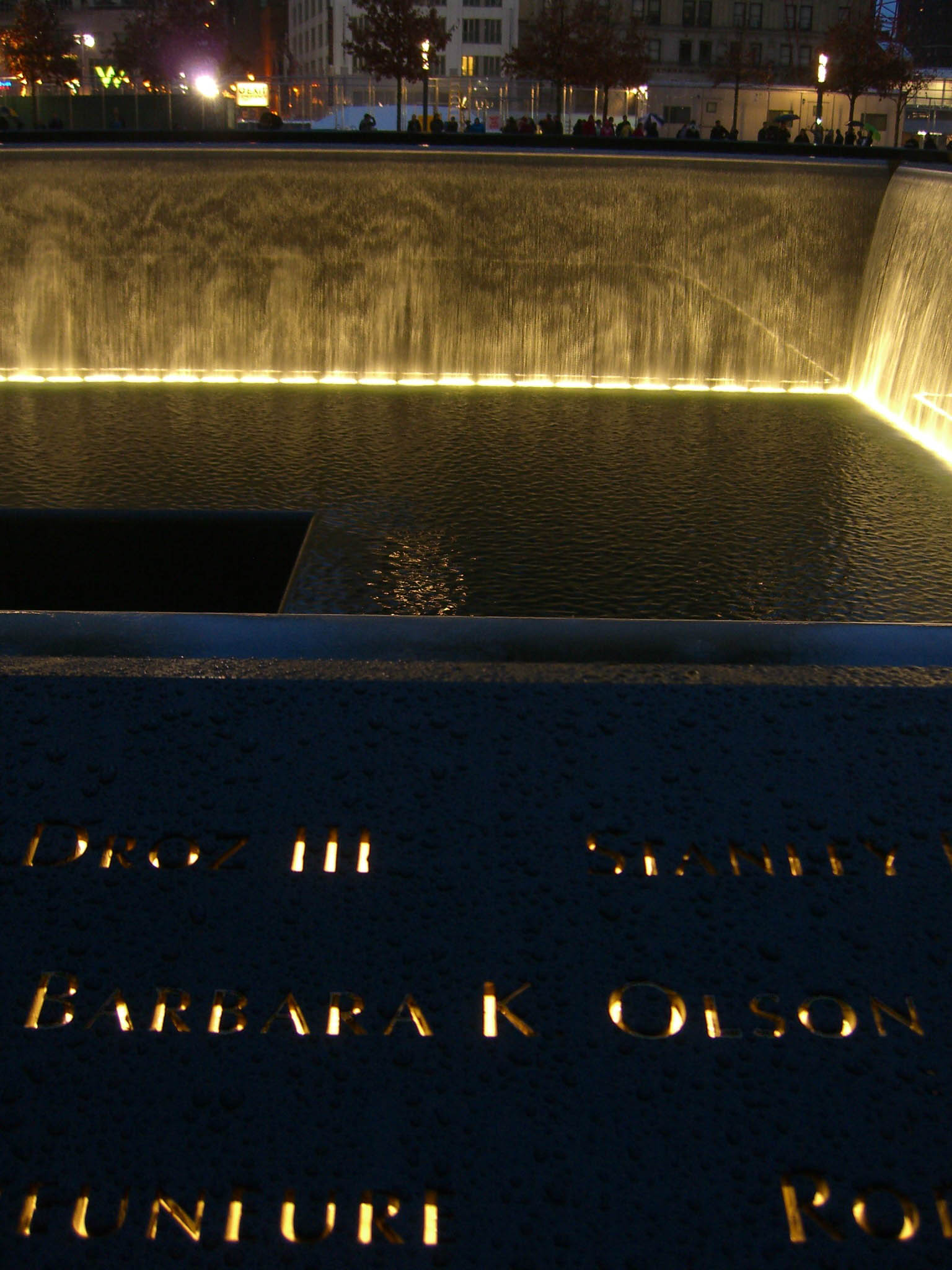 The name of Barbara Olson is seen with those of other 9/11 victims from American Airlines Flight 77 inscribed on bronze panel S-70 of the South Pool of the National September 11 Memorial in Manhattan, on December 6, 2011. This photo was created by Luigi Novi. If you have any questions, you can contact me by sending me an email or User talk:Nightscream